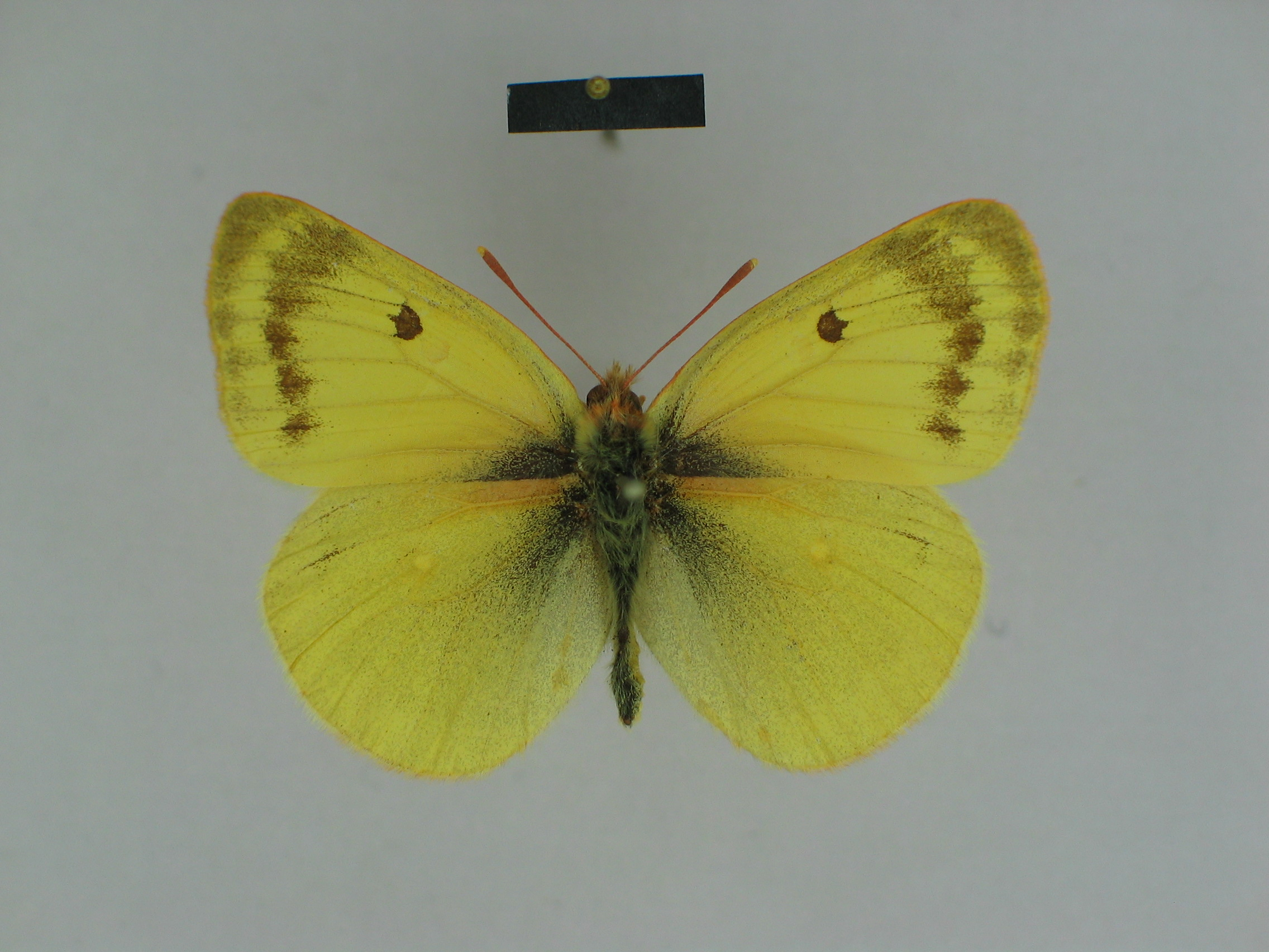 Syntype of the species Colias sieversi from the collection of the Museum für Naturkunde (Berlin); ♂ dorsal side; scalebar=1 cm